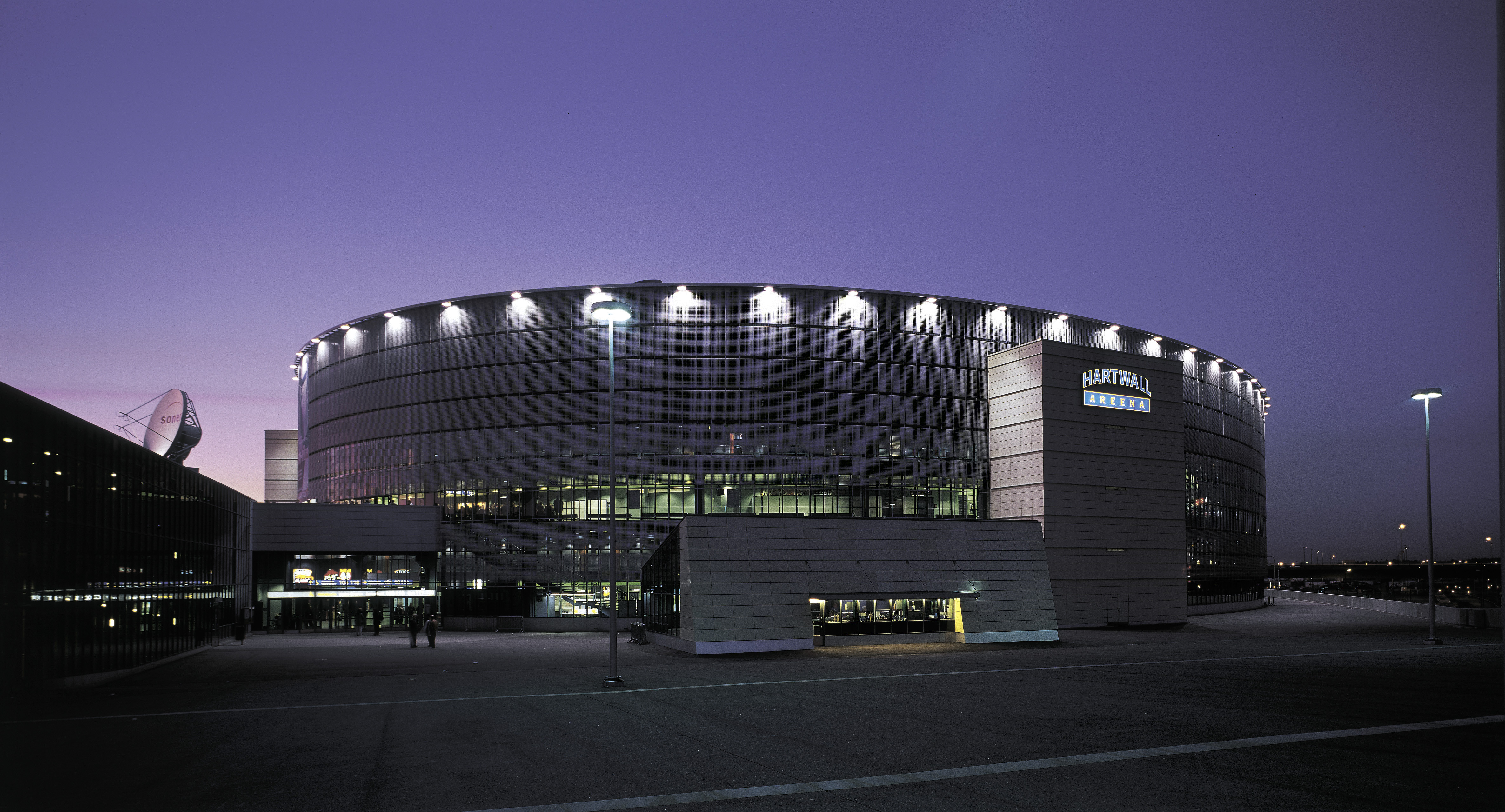 Hartwall Arena in Helsinki, Finland by night.